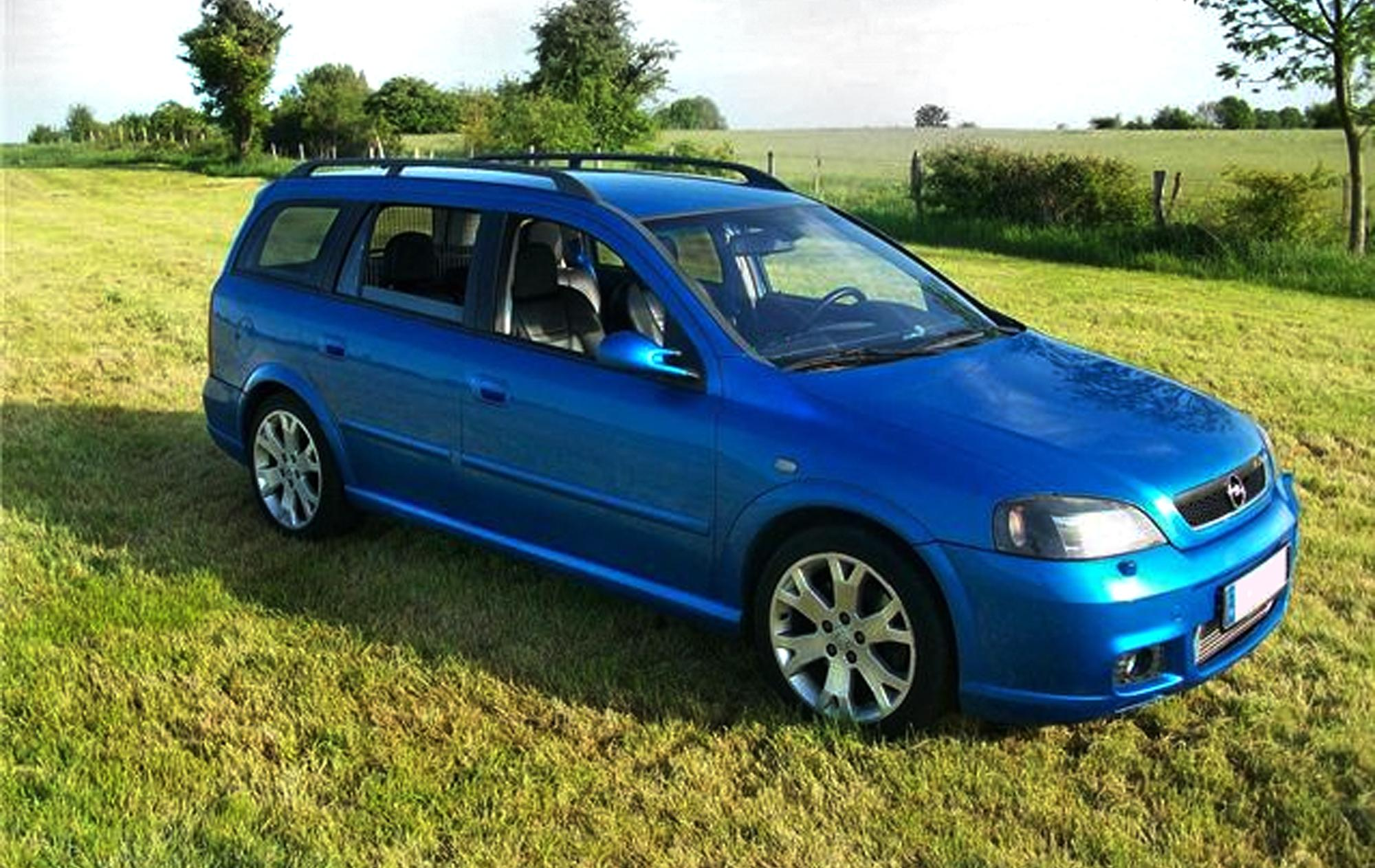 an Astra Caravan in Blue OPC